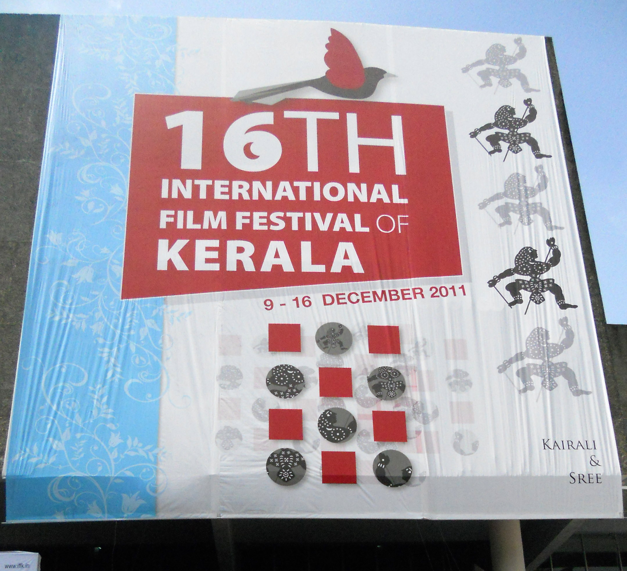 Derived from File:Iffk 2011 DSCN4617.JPG. Modification include cropping and minor geometry and level adjustments.